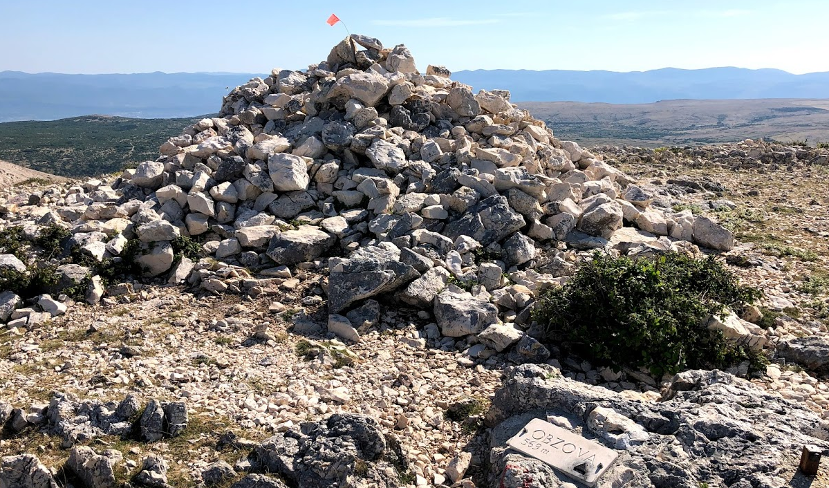 Obzova,Krk, Croatia, summit